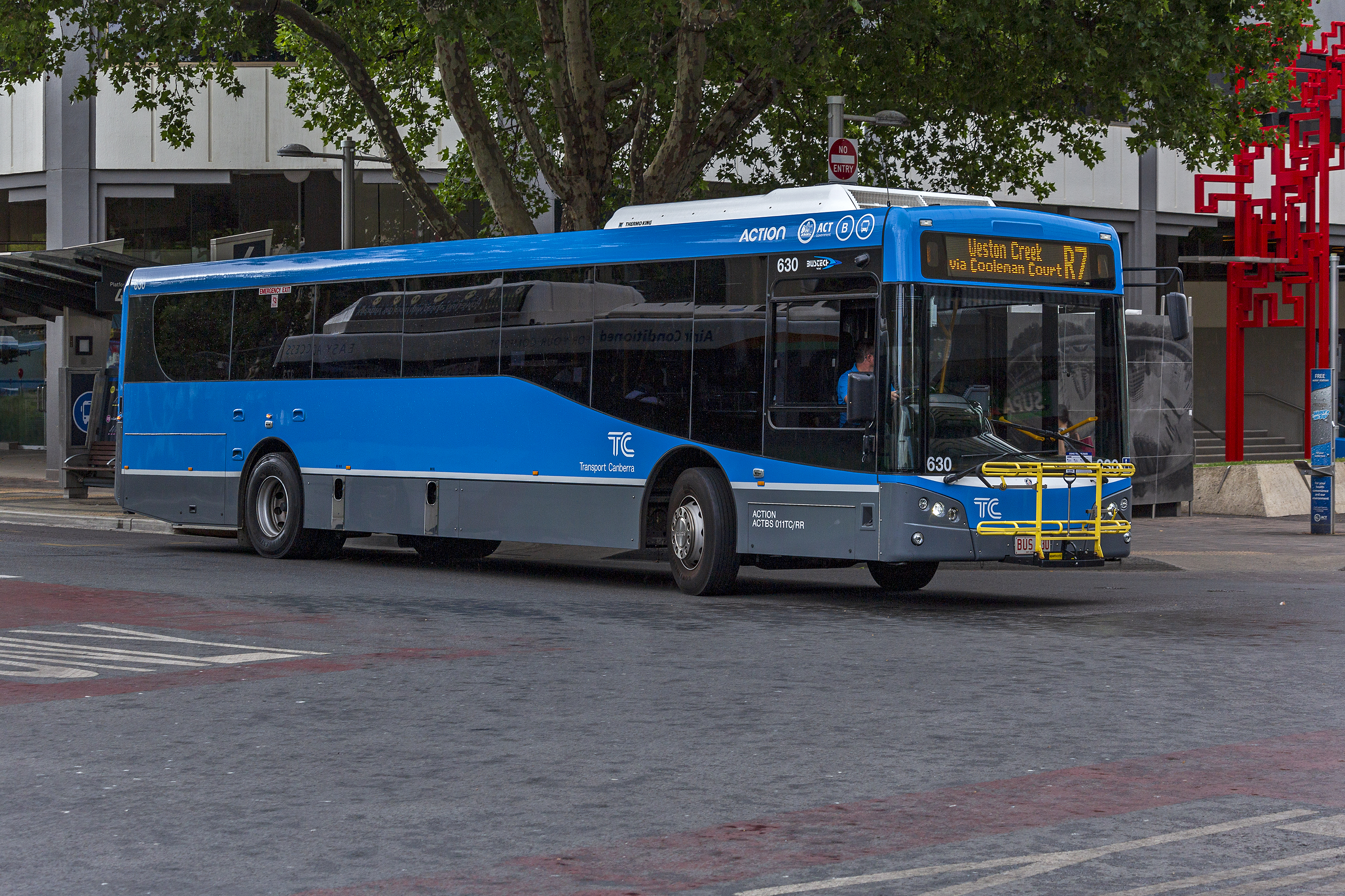 ACTION (BUS 630) Bustech VST bodied Scania K320UB 4x2 (Euro VI) departing City Bus Station